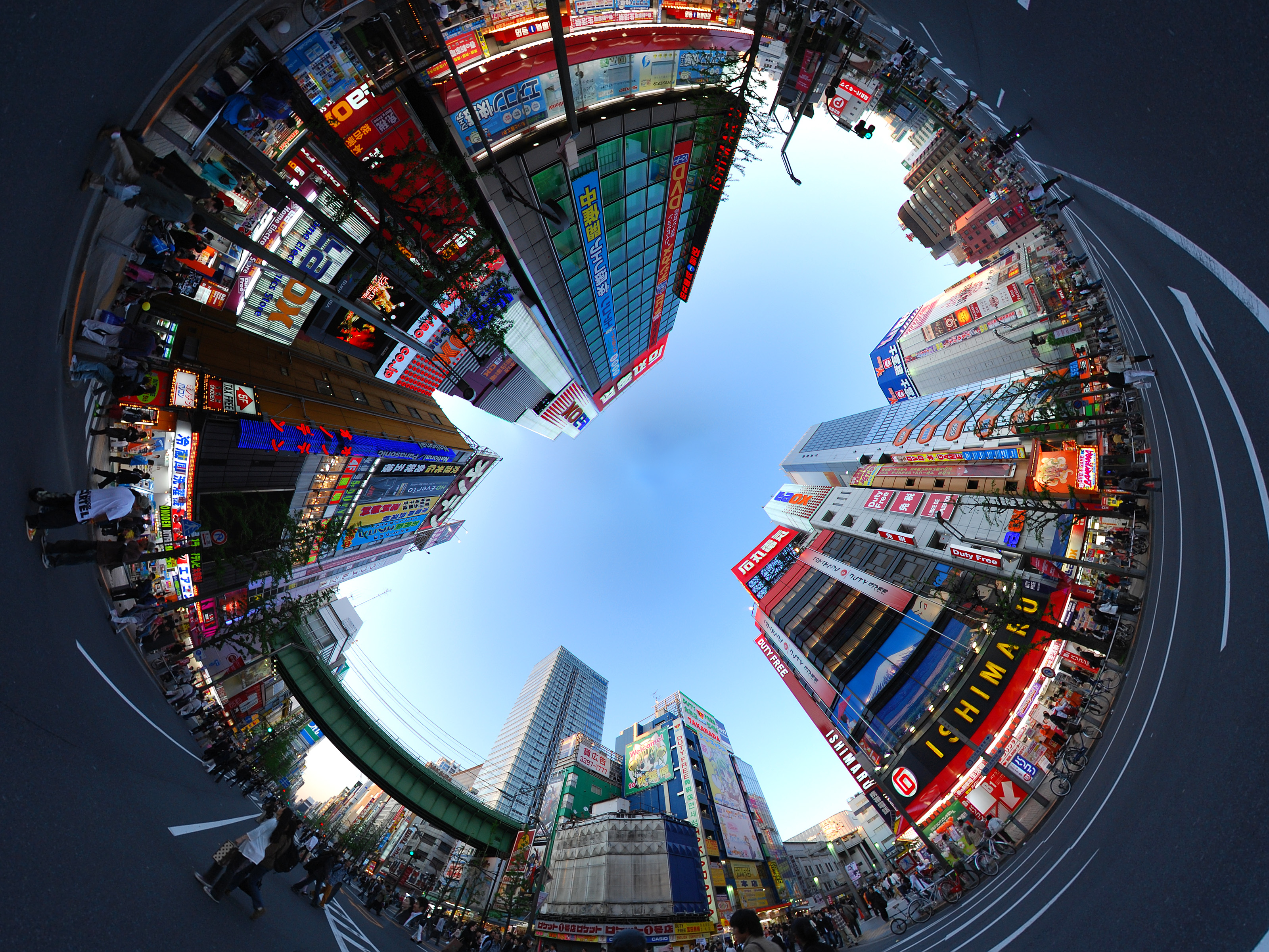 Japan Tokyo Akihabara panorama panoramic